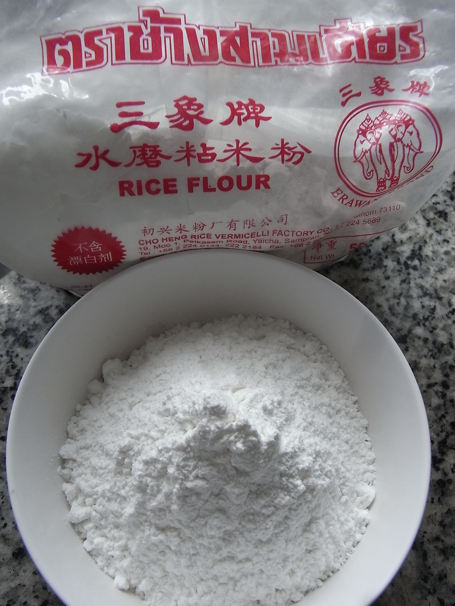 煎餅 材料 粘米粉